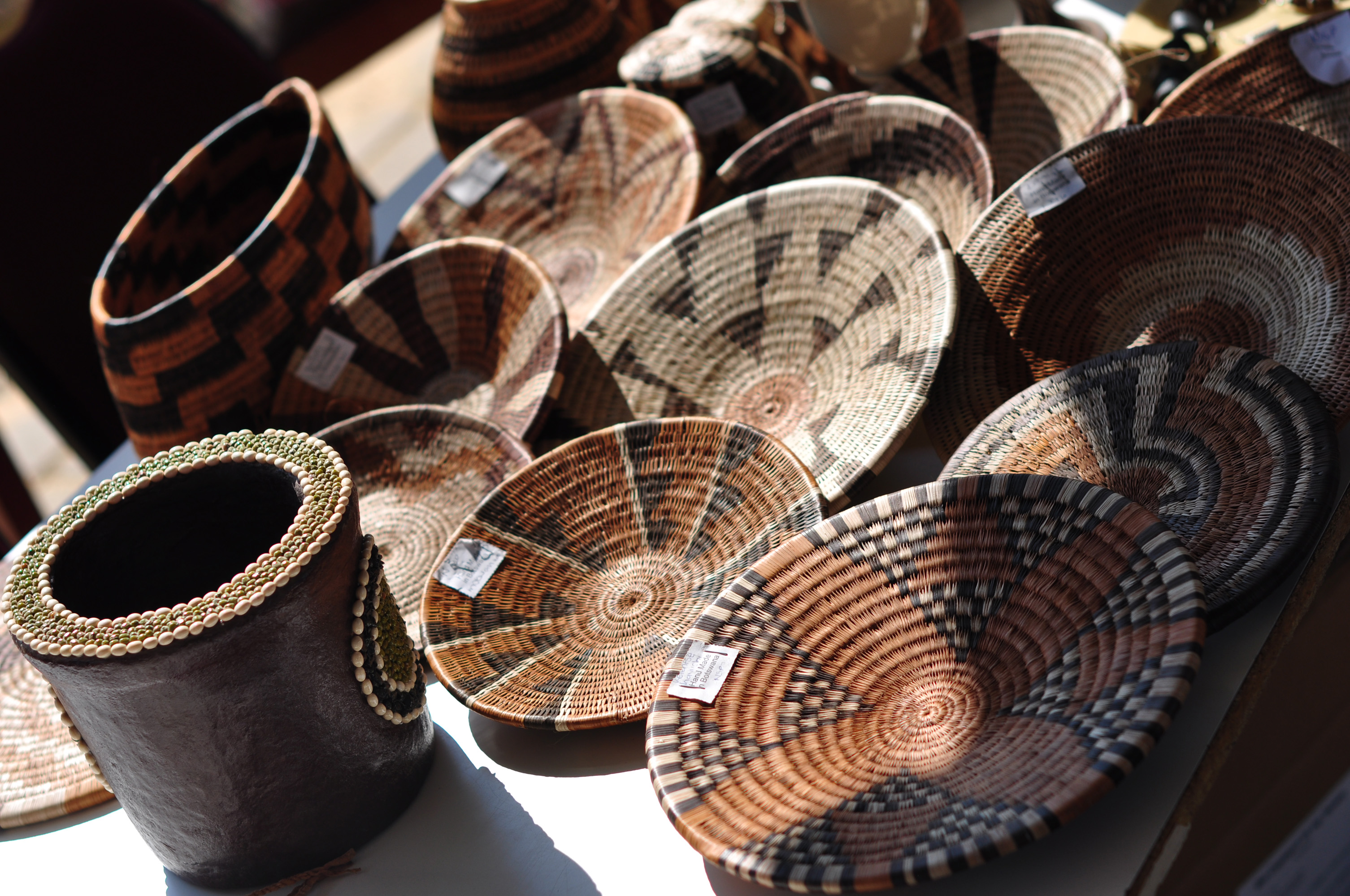 About 700 U.S. military and 700 Botswana Defense Force members came together to share a day of food, fun and culture during MEDLITE/SOUTHERN ACCORD 12 at Thebephatshwa Air Base, Botswana, August 5, 2012. The Diplomatic Women’s Association of Botswana, along with base members, brought approximately 35 different vendors onto the installation so service members could enjoy local foods and purchase souvenirs in order to take a piece of Africa home with them. Not only is the MEDLITE 12 exercise being used for the U.S. and Botswana to train and work together, but it’s also an opportunity for service members from these nations to learn a little bit about each other’s culture.